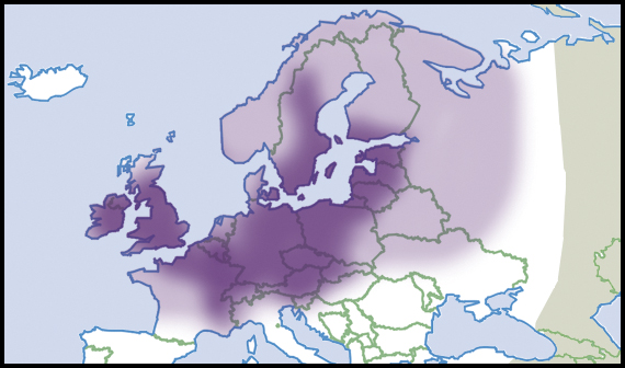 Euconulus alderi (Gray, 1840). Distributional range in Europe, scientific state of knowledge of 2012. Source description in English. Light colour indicated rare occurrences or regions where the species could eventually be expected to occur. Dark colour indicated relatively reliable occurrences, as well as regions where the species was expected to occur, and where the species was not known to be extremely rare. Dark colour indications were not necessarily based on published records. Species summary in AnimalBase